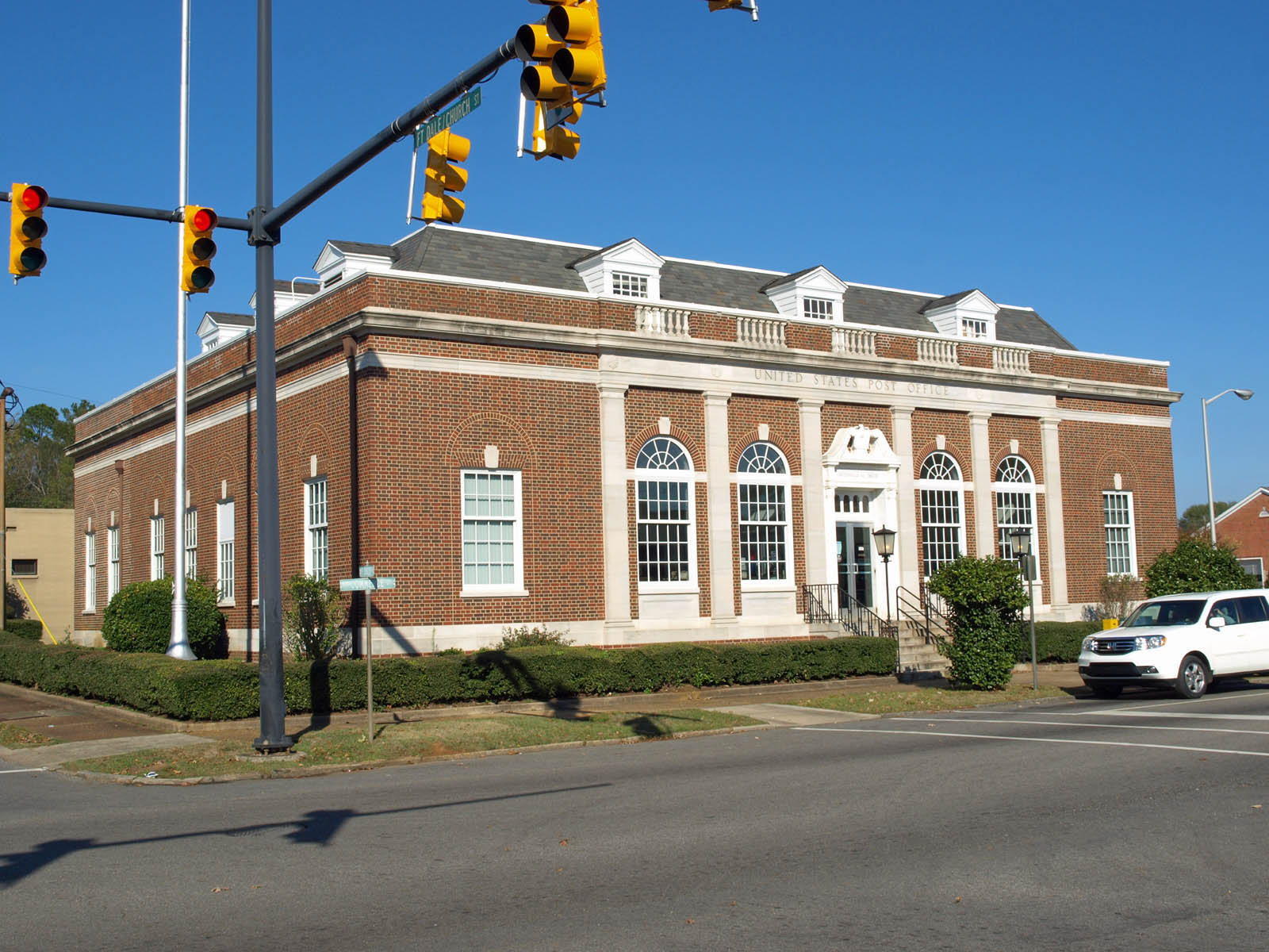 The U.S. Post Office in Greenville, Alabama, part of the Post Office Historic District